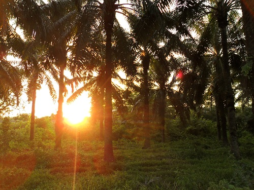 African palm tree forest in Aracataca